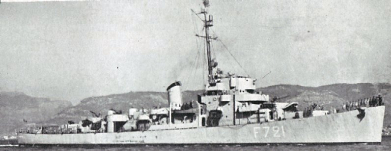 The French frigate Touareg (F721) on 5 November 1955.